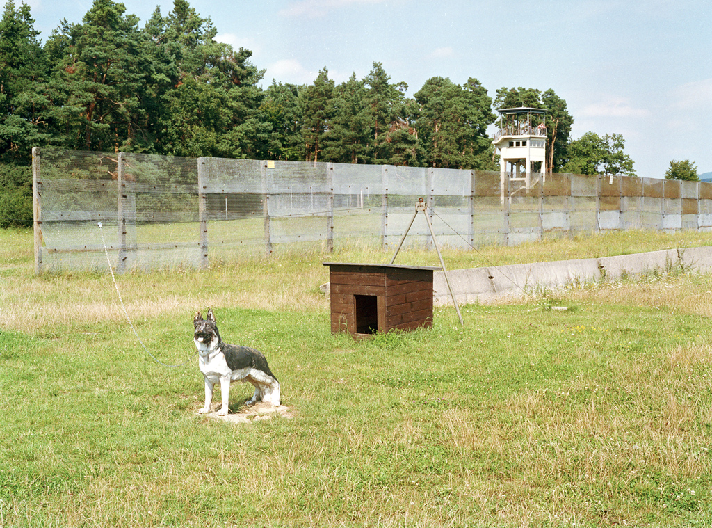 The open-air museum of Point Alpha near Geisa (Thüringen, Germany). In the background is the watchtower that was used by the Americans. It was placed only two hundred metres away from an East German tower, separated by a guarded border strip with fence, anti-vehicle trench and patrol road.